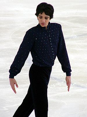 Tommy Steenberg during his free skate at the 2004 Junior Grand Prix event in Germany